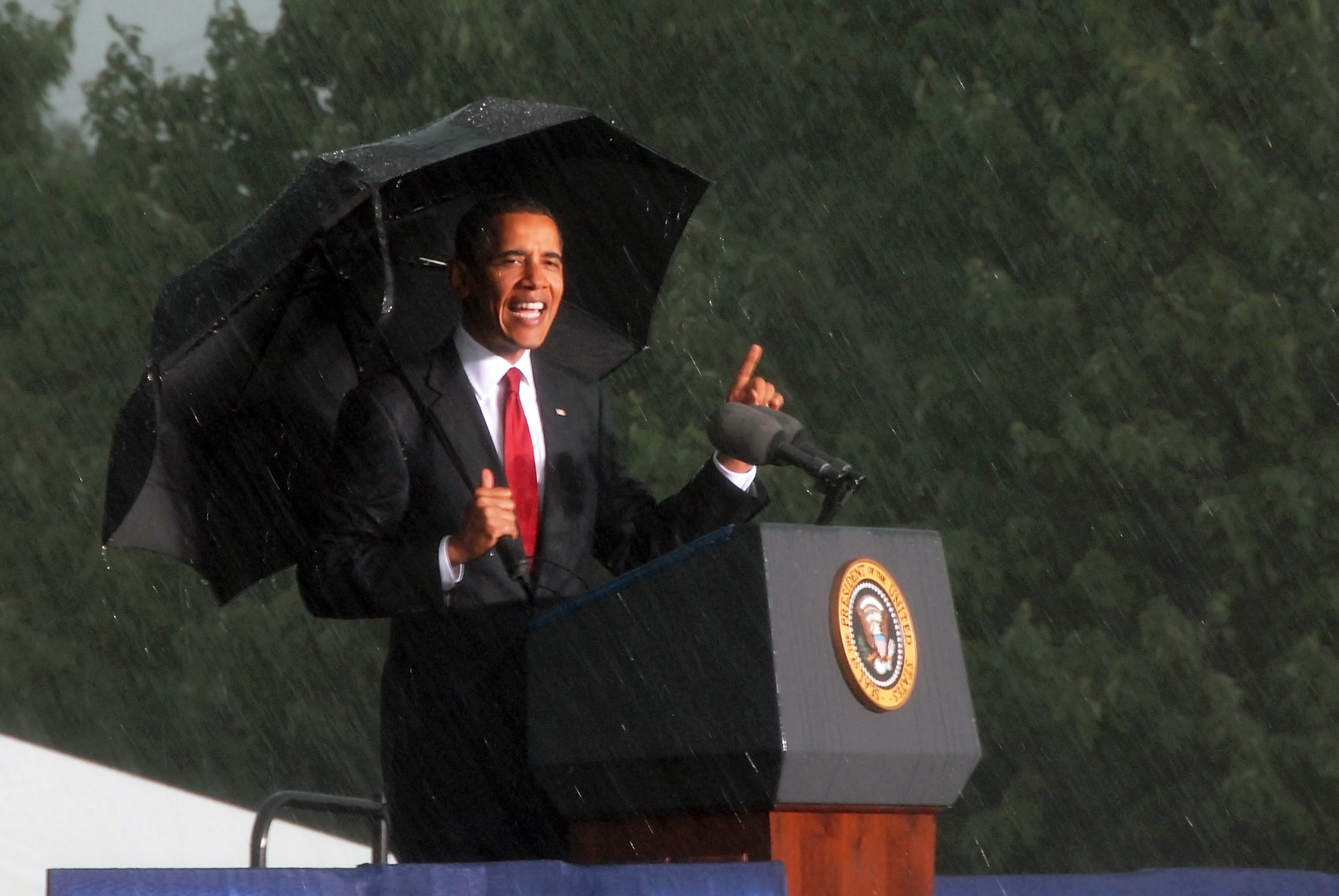 President Barack Obama speaks at the 11th Annual Memorial Day Ceremony May 31 at the Abraham Lincoln National Cemetery in Elwood, Ill. The ceremony was cut short because of sudden rainfall.